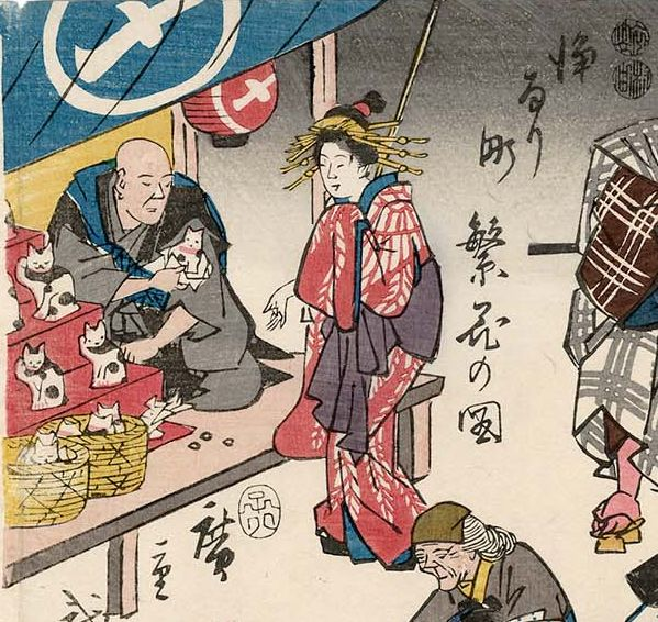 from the series Flourishing Business in Balladtown (Jōruri-machi hanka no zu)